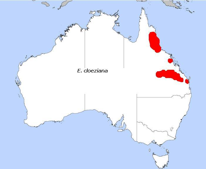 Range of Eucalyptus cloeziana F. Muell.